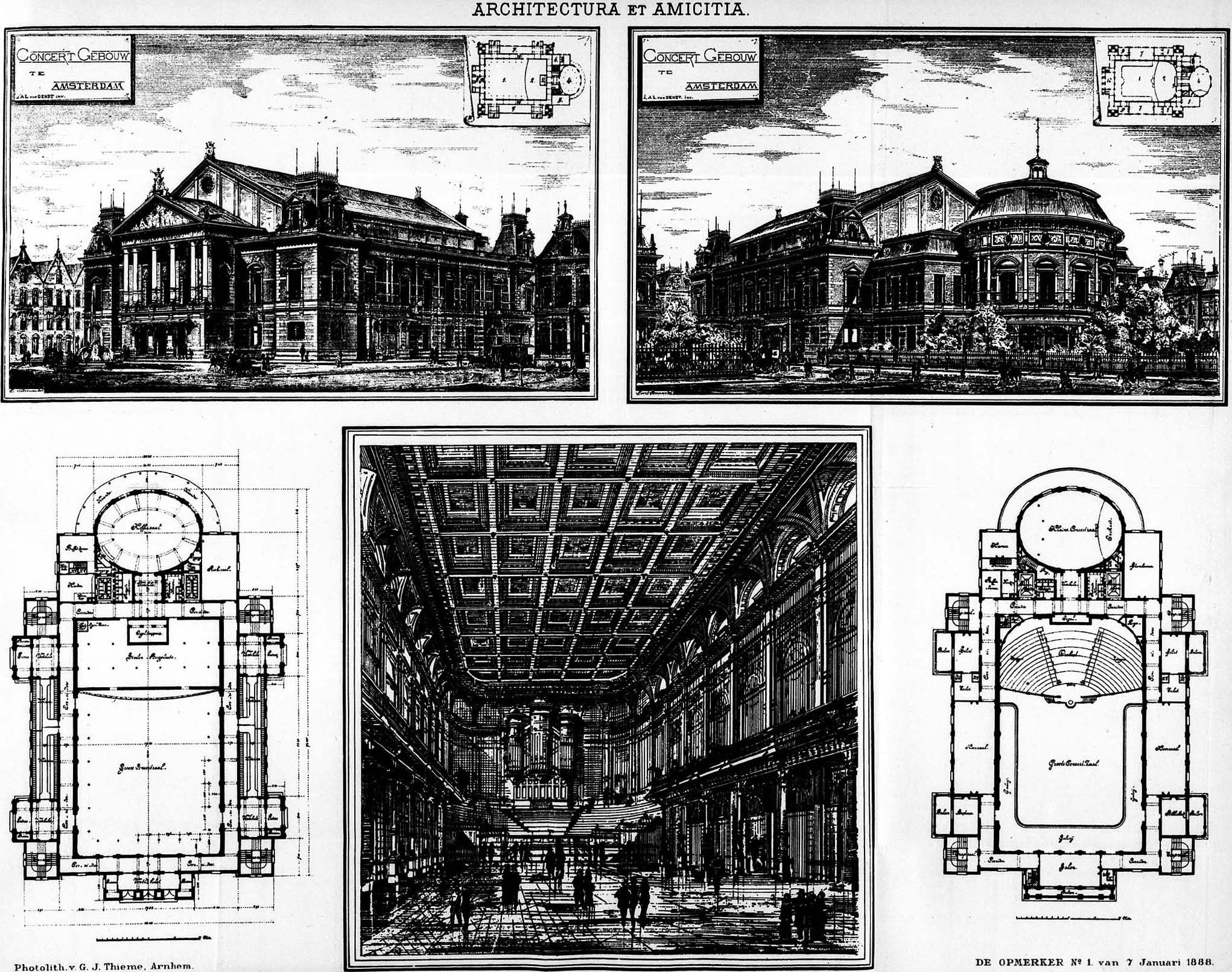 Concertgebouw, Amsterdam, perspectives and plans.